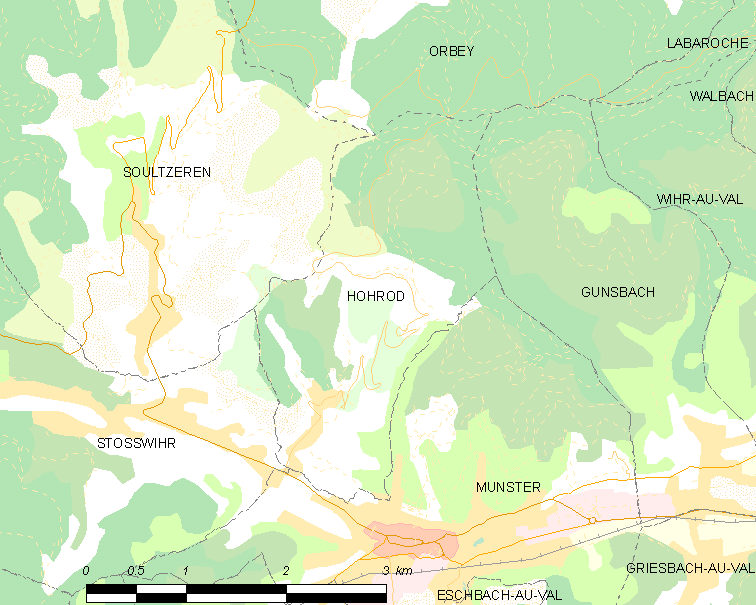 Map of French municipality